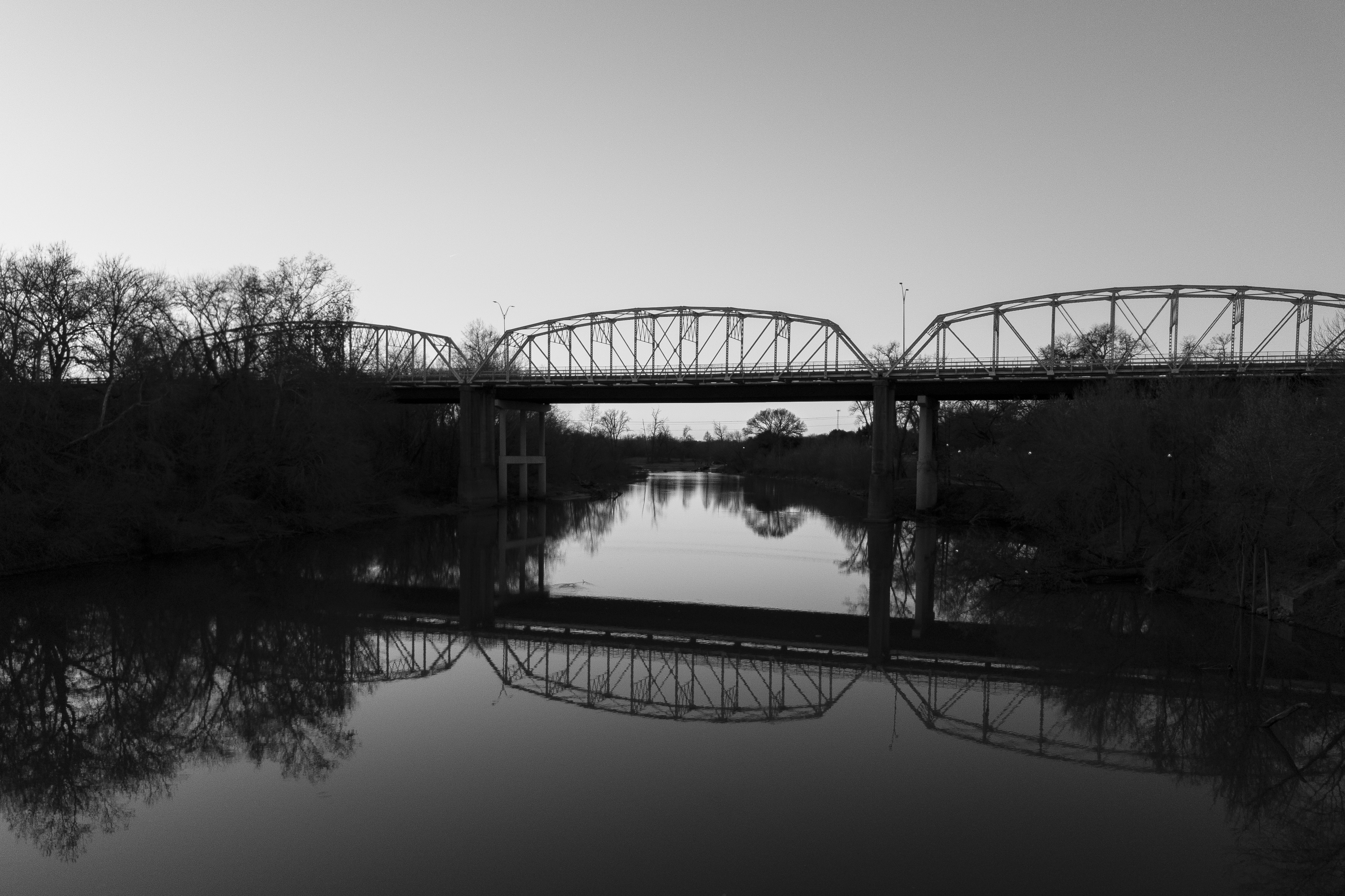 The pedestrian bridge crossing the Colorado River at Bastrop, Texas. Photo taken in February 2020.